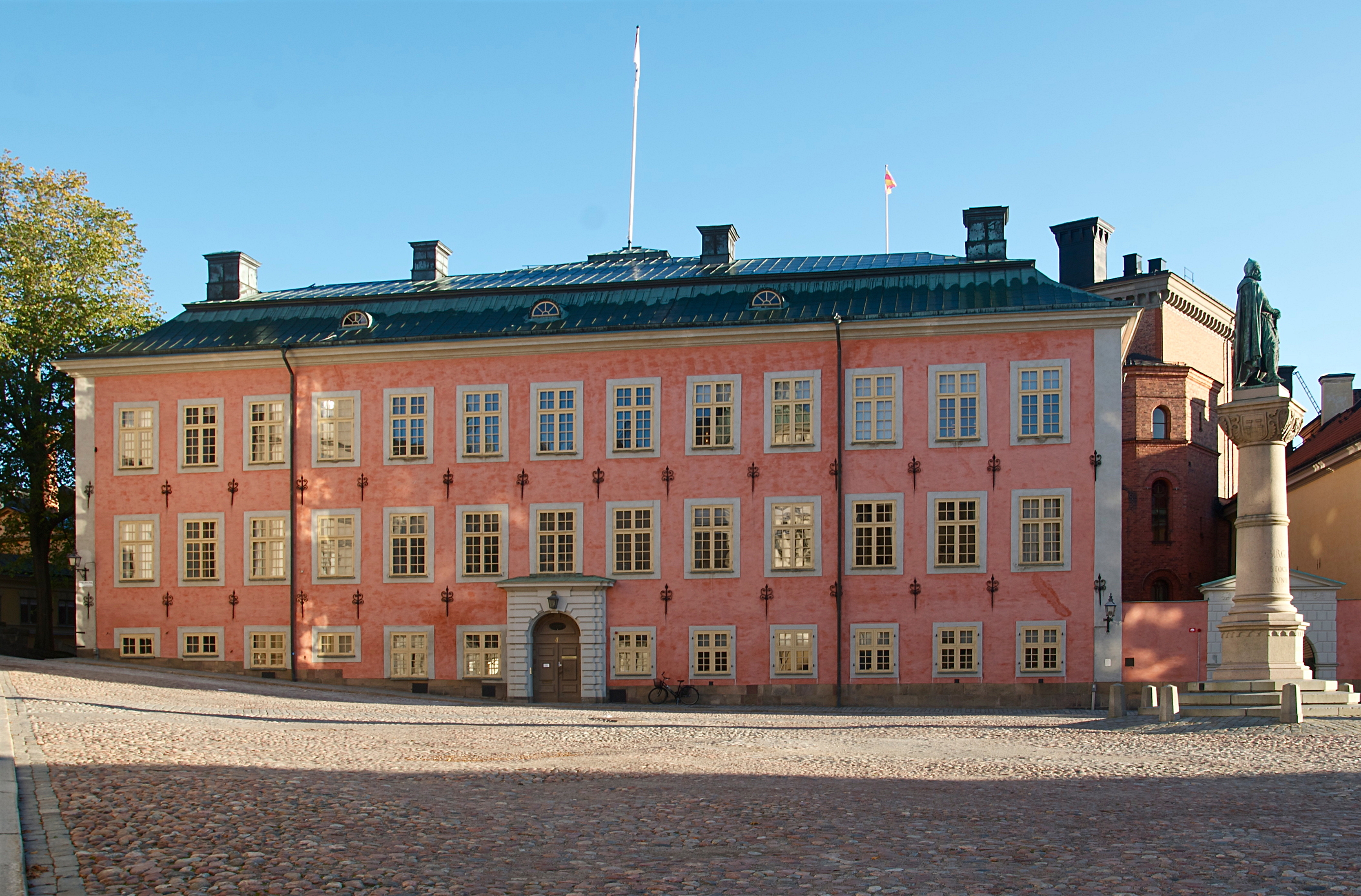 Stenbockska palatset} (The Stenbock palace), Riddarholmen (Stockholm).